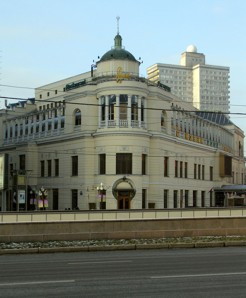 Arbat Street, Moscow. Unusually few people - between New Year and (orthodox) Christmas the city looks deserted.Original architect: Adolph Erichson, 1914-1915; original interiors: Lev Kekushev.